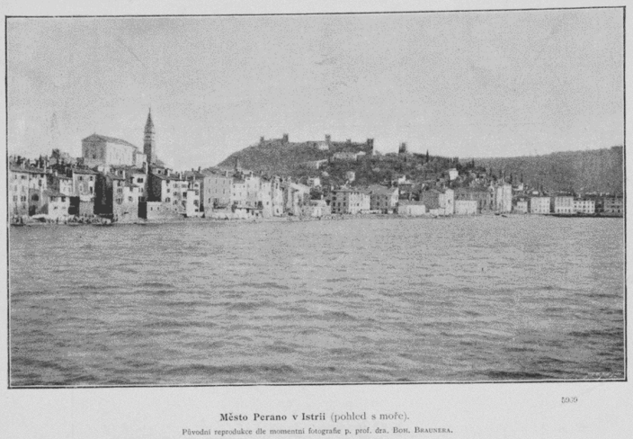 View of Piran (Italian: Pirano, in the source probably incorrectly "Perano"), a port in Istria, present-day Slovenia.